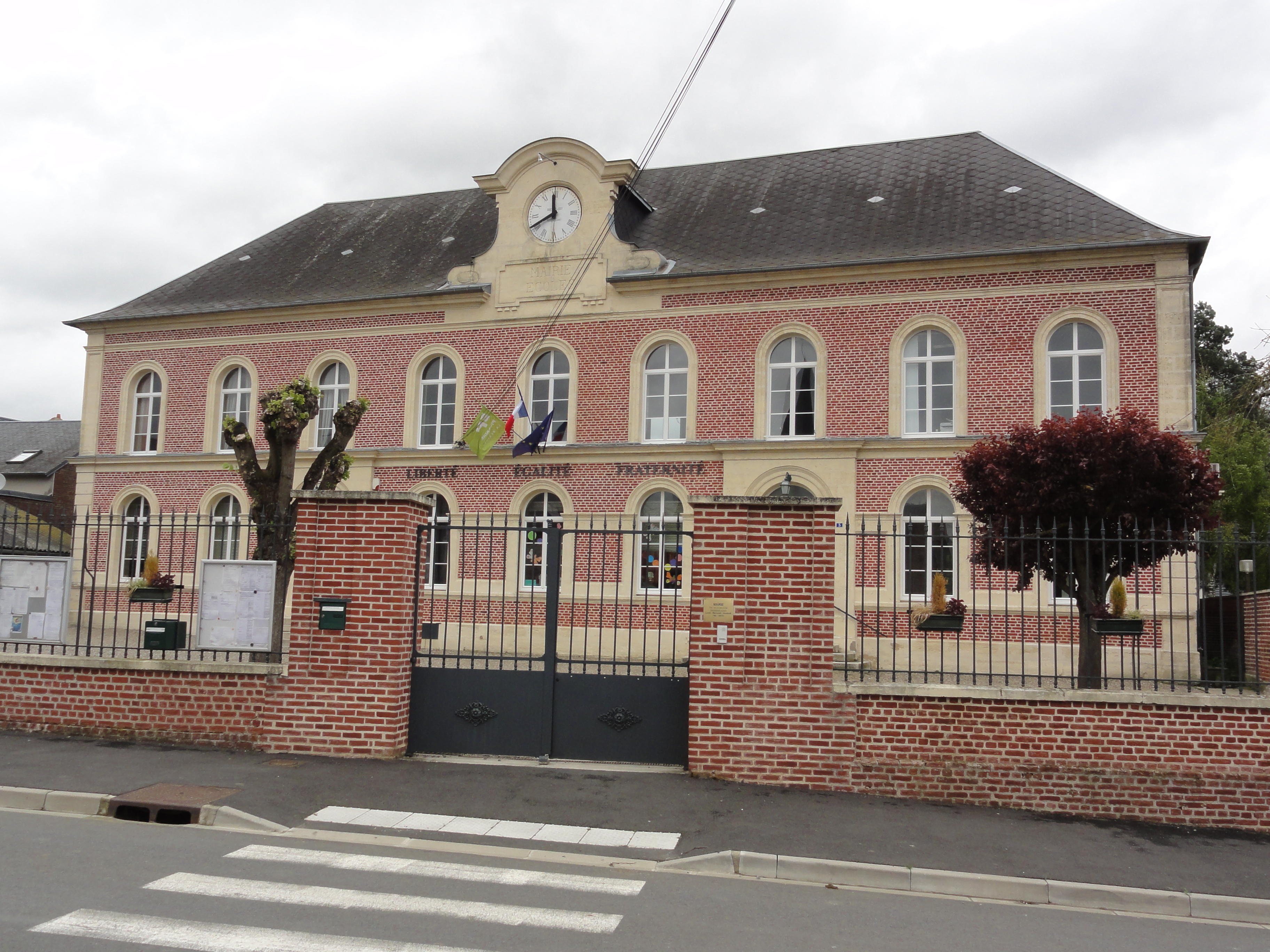 Versigny (Aisne) mairie - écoles